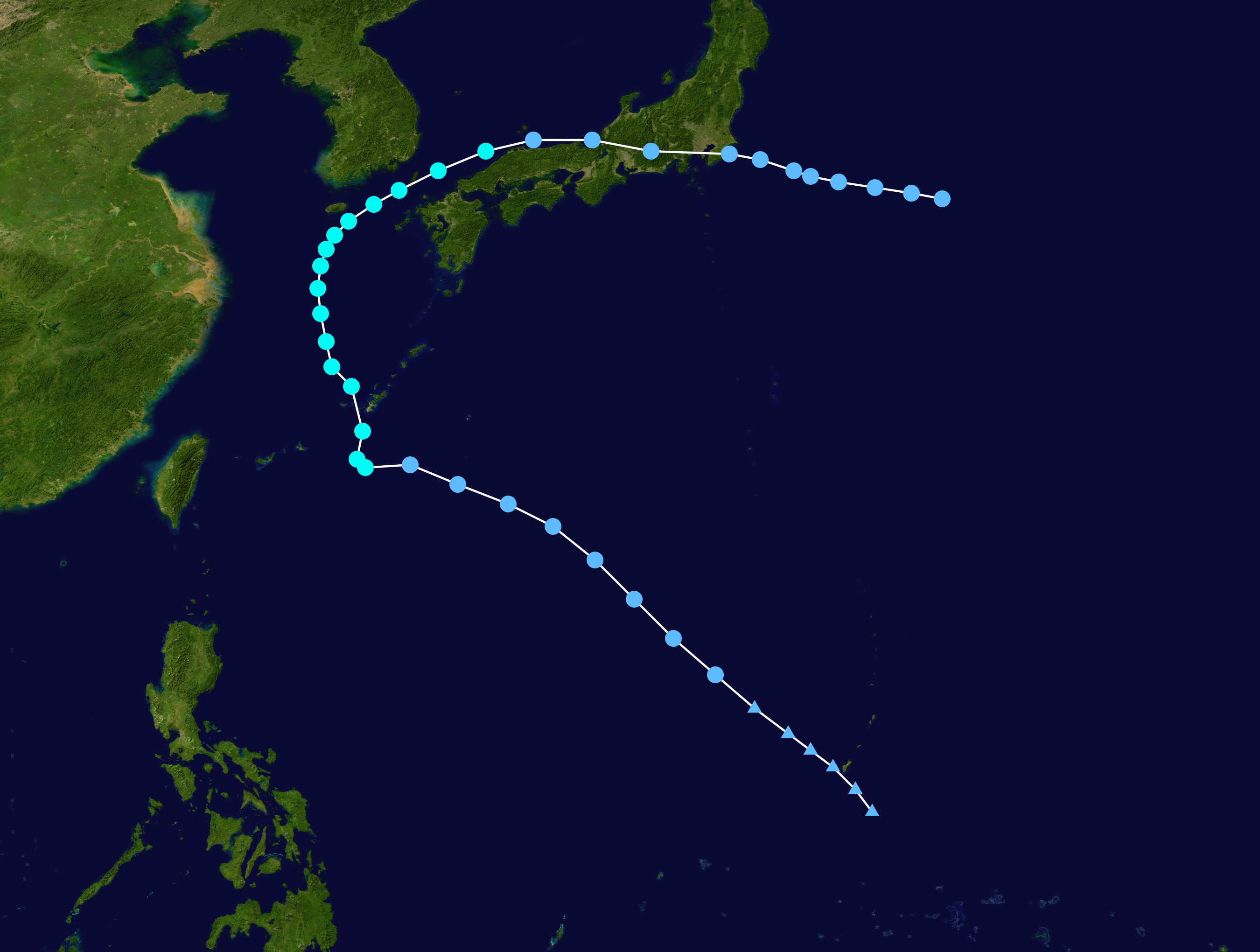 Track map of Severe Tropical Storm Malou of the 2010 Pacific typhoon season. The points show the location of the storm at 6-hour intervals. The colour represents the storm's maximum sustained wind speeds as classified in the Saffir–Simpson scale (see below), and the shape of the data points represent the nature of the storm, according to the legend below. Saffir–Simpson scale Tropical depression≤38 mph≤62 km/h Category 3111–129 mph178–208 km/h Tropical storm39–73 mph63–118 km/h Category 4130–156 mph209–251 km/h Category 174–95 mph119–153 km/h Category 5≥157 mph≥252 km/h Category 296–110 mph154–177 km/h Unknown Storm type Tropical cyclone Subtropical cyclone Extratropical cyclone / Remnant low / Tropical disturbance / Monsoon depression